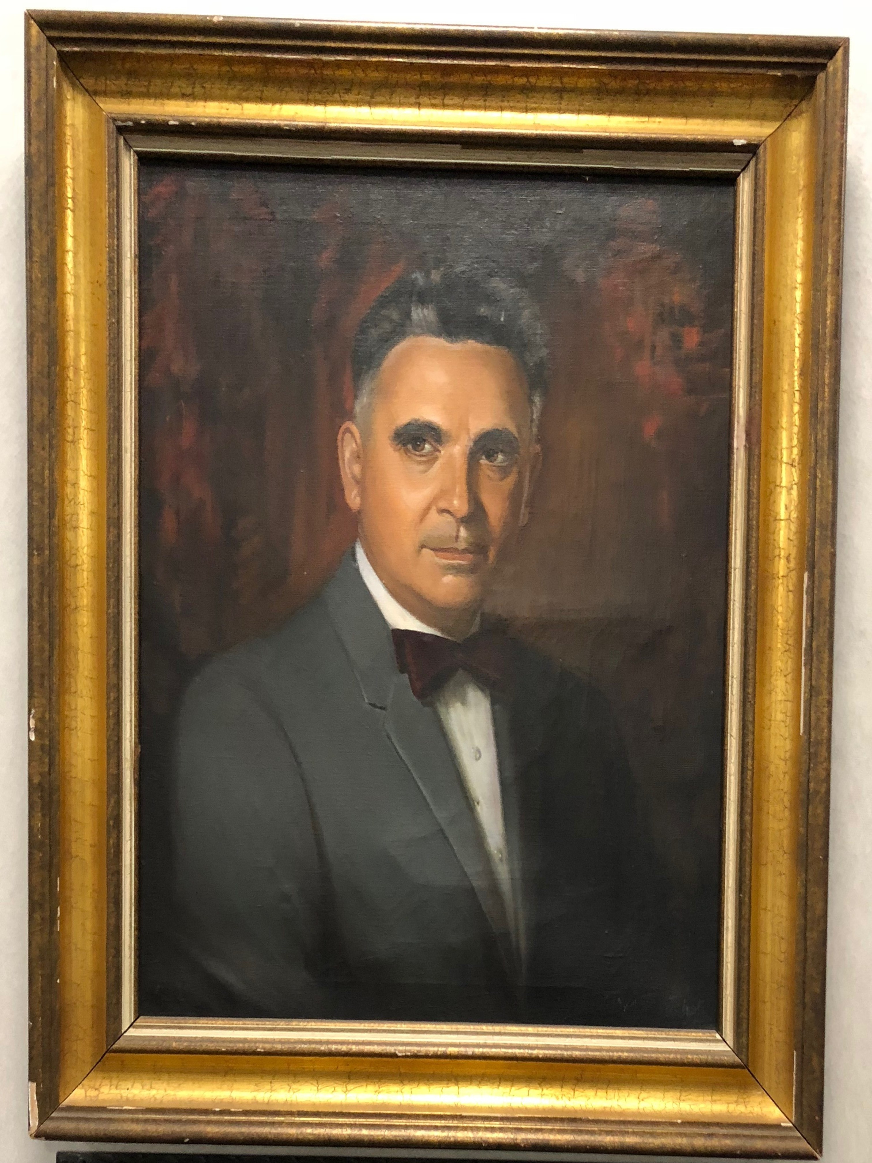 Portrait of Henry Viscardi, Jr. at the Viscardi Center